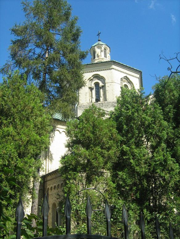 National Church Cathedral Holy Spirit of Warsaw